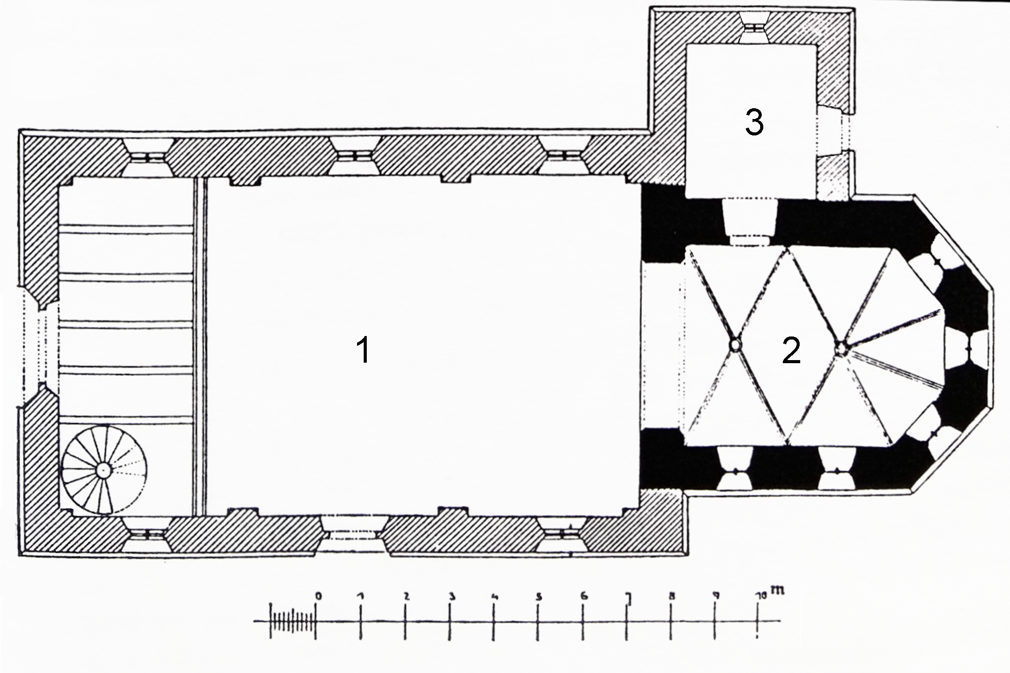 floor plan, Belec church